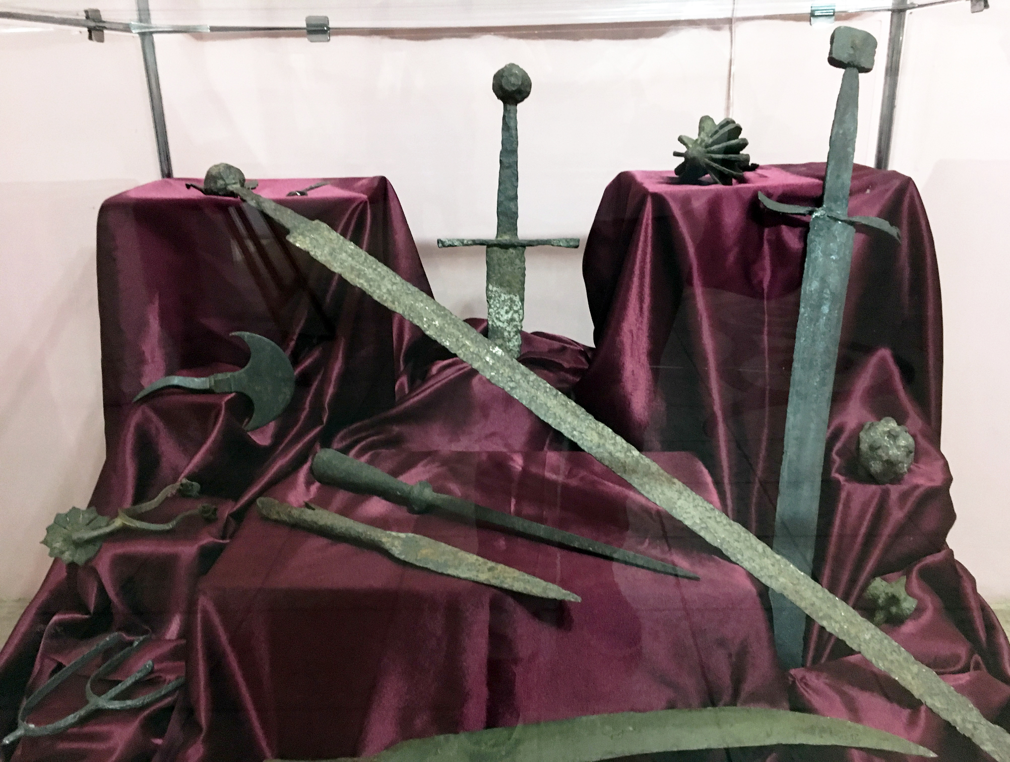 A selection of medieval Serbian weapons in The National museum in Požarevac.